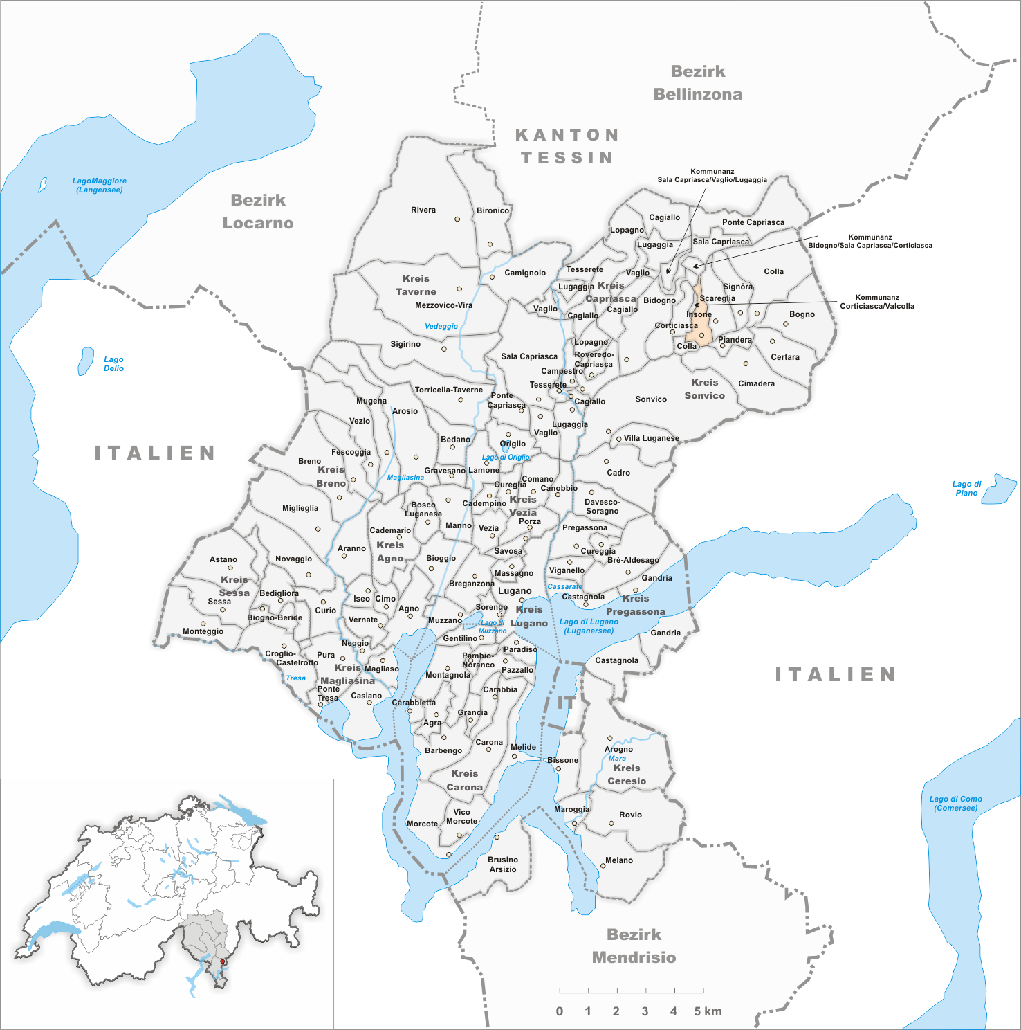 Municipality Insone Artist: Tschubby